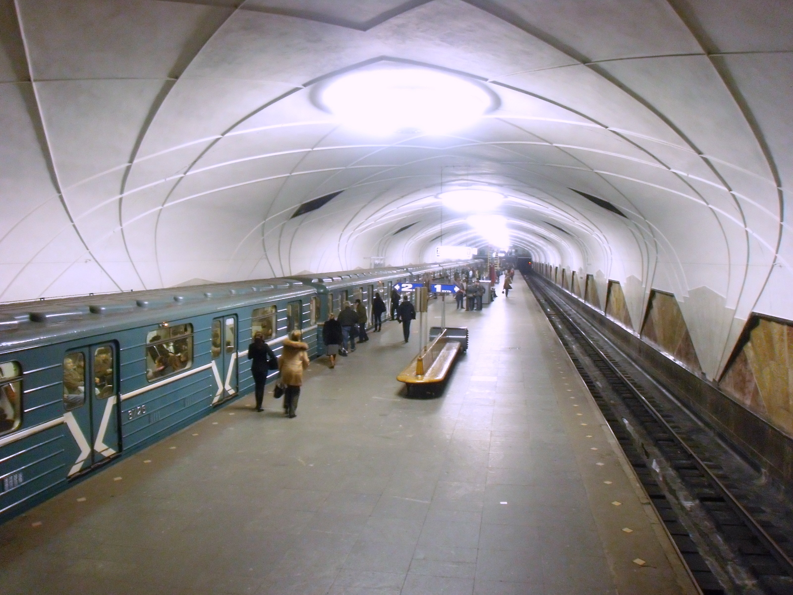 Aeroport metro station in Moscow